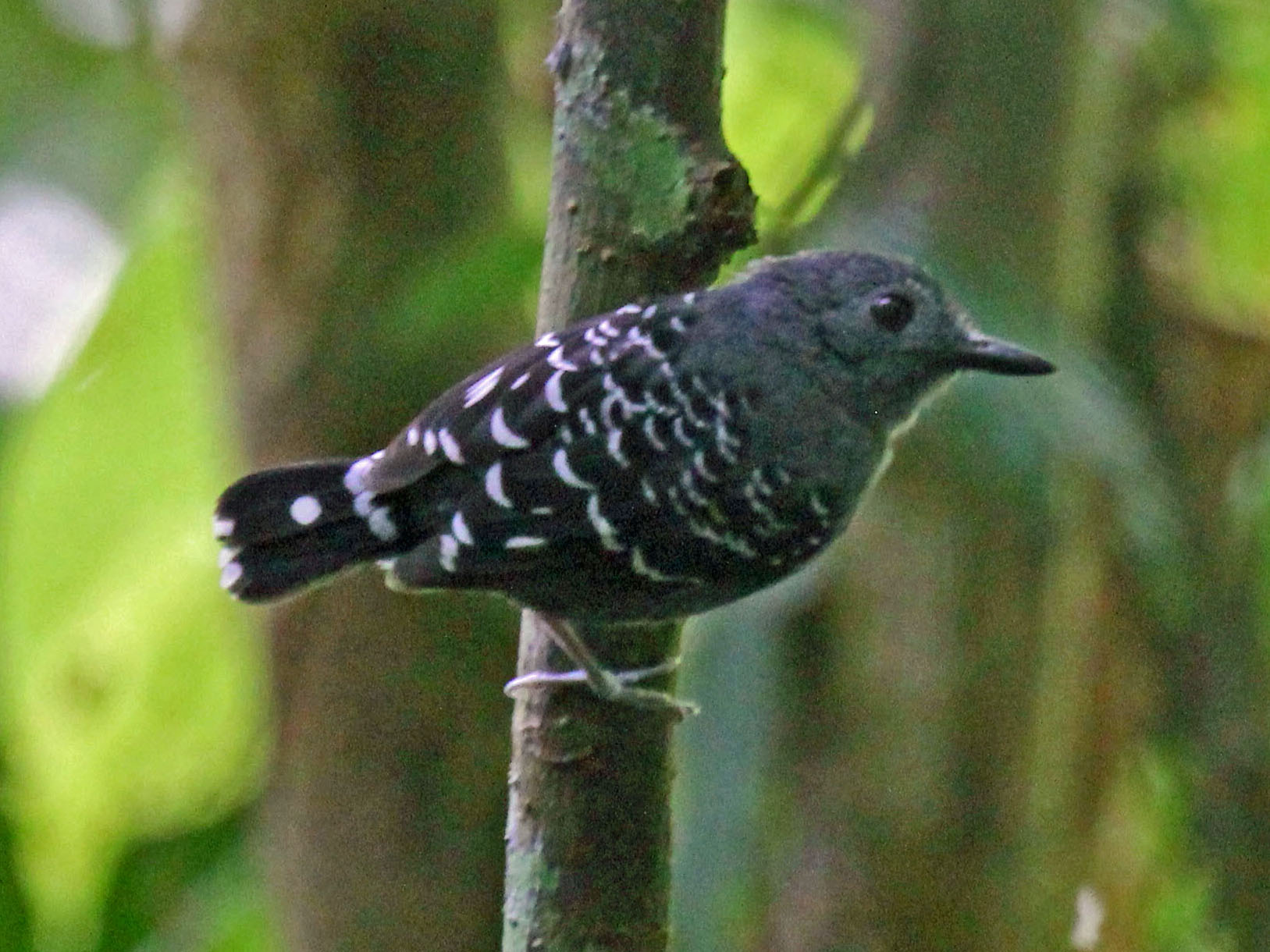 Scale-backed Antbird (Willisornis poecilinotus) - Amazon basin, Ecuador